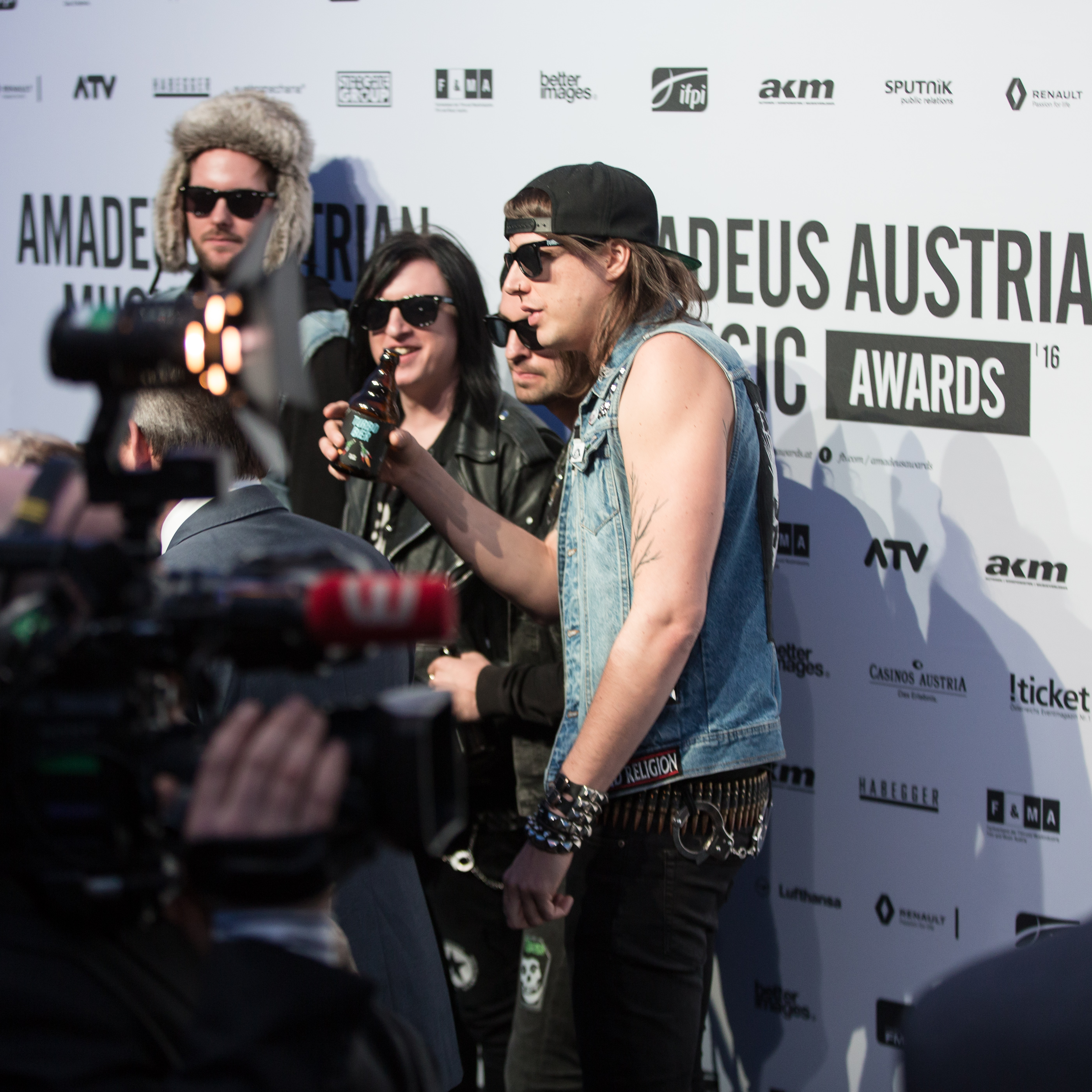 Turbobier at the Amadeus Austrian Music Award 2015 at Volkstheater in Vienna